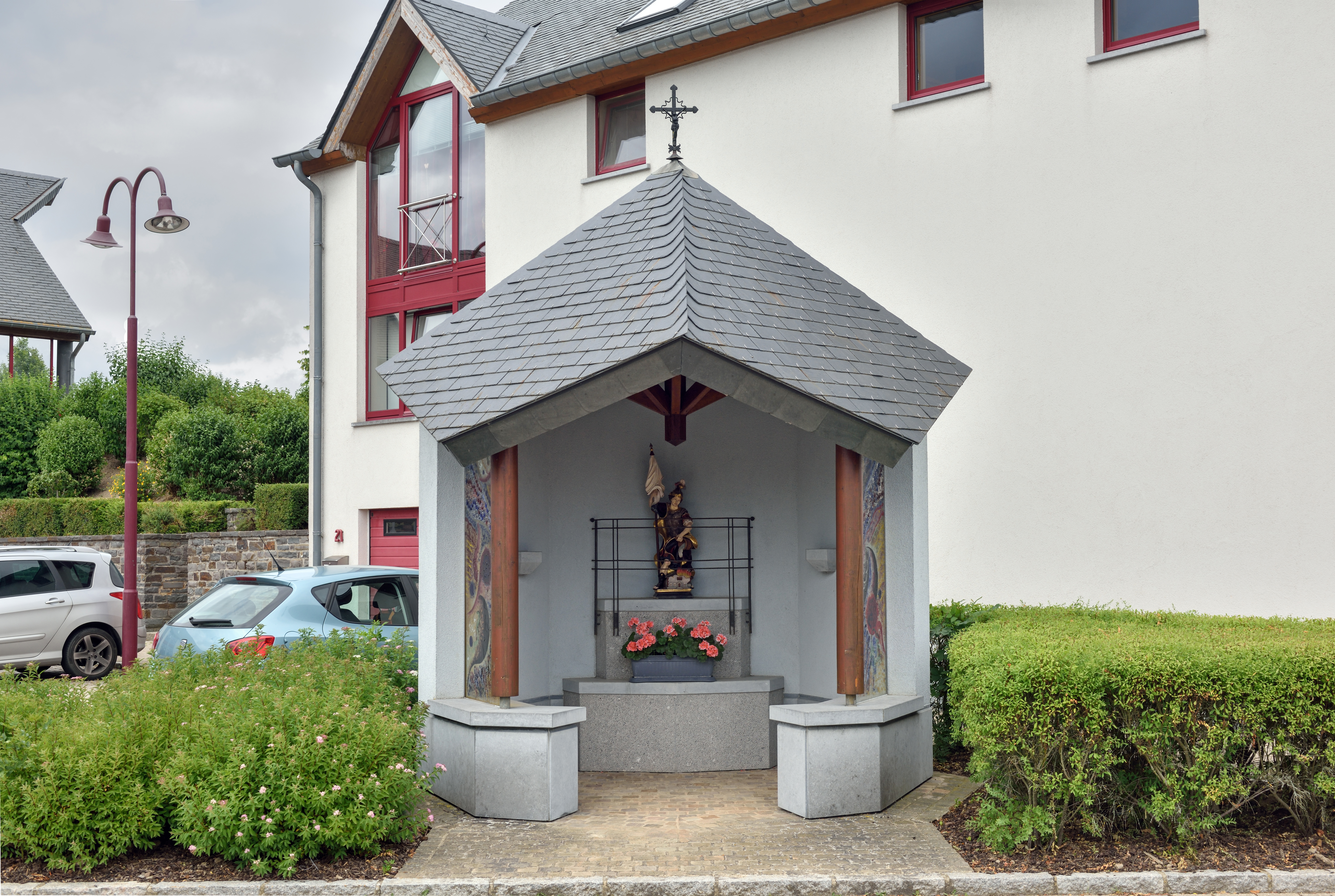 Saint Donatus chapel in Dahl, Duerfstrooss (village street), commune of Goesdorf, Luxembourg.